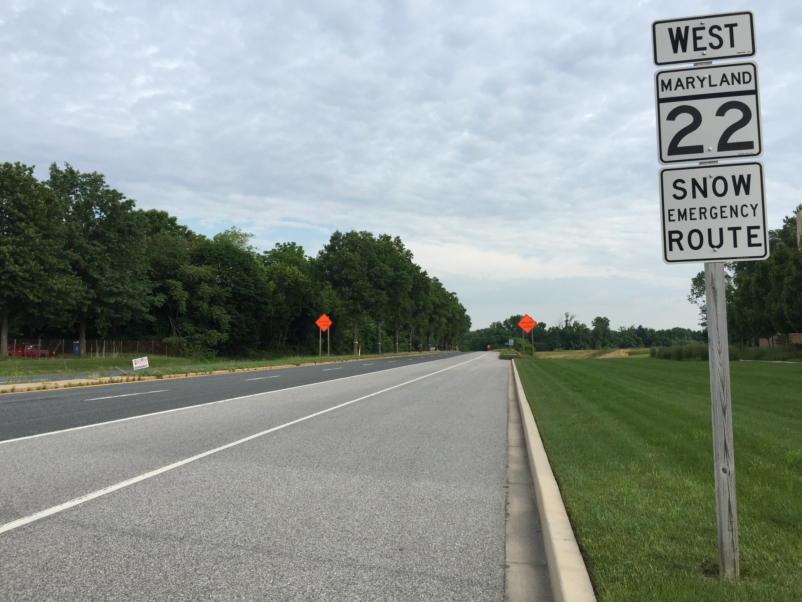 View west from the east end of Maryland State Route 22 (Aberdeen Throughway) just southeast of Aberdeen in Harford County, Maryland